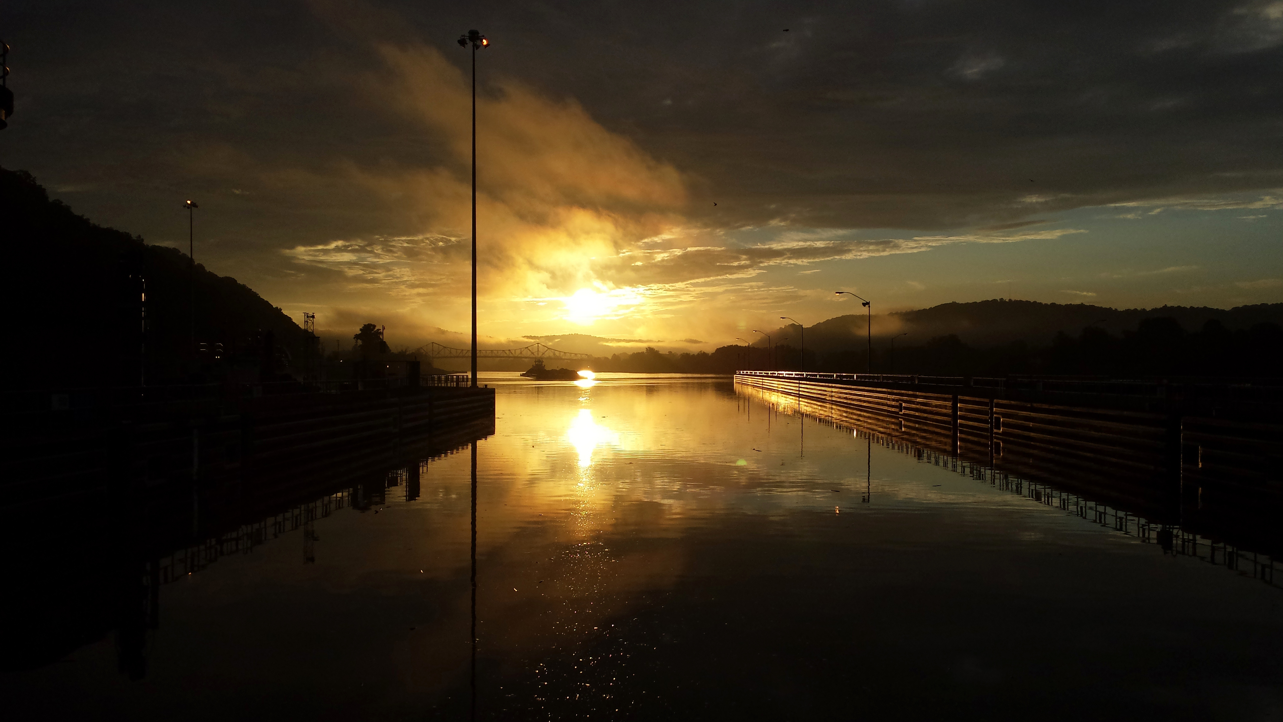 The sun rises over the Huntington District, where the Louisville Repair Station is replacing hydraulic cylinders on a tainter gate at Winfield Locks and Dam on the Kanawha River, Winfield, W.Va. (U.S. Army Corps of Engineers photo by Waylon Humphrey)